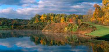 fall in Cuyahoga Valley National Park, Ohio